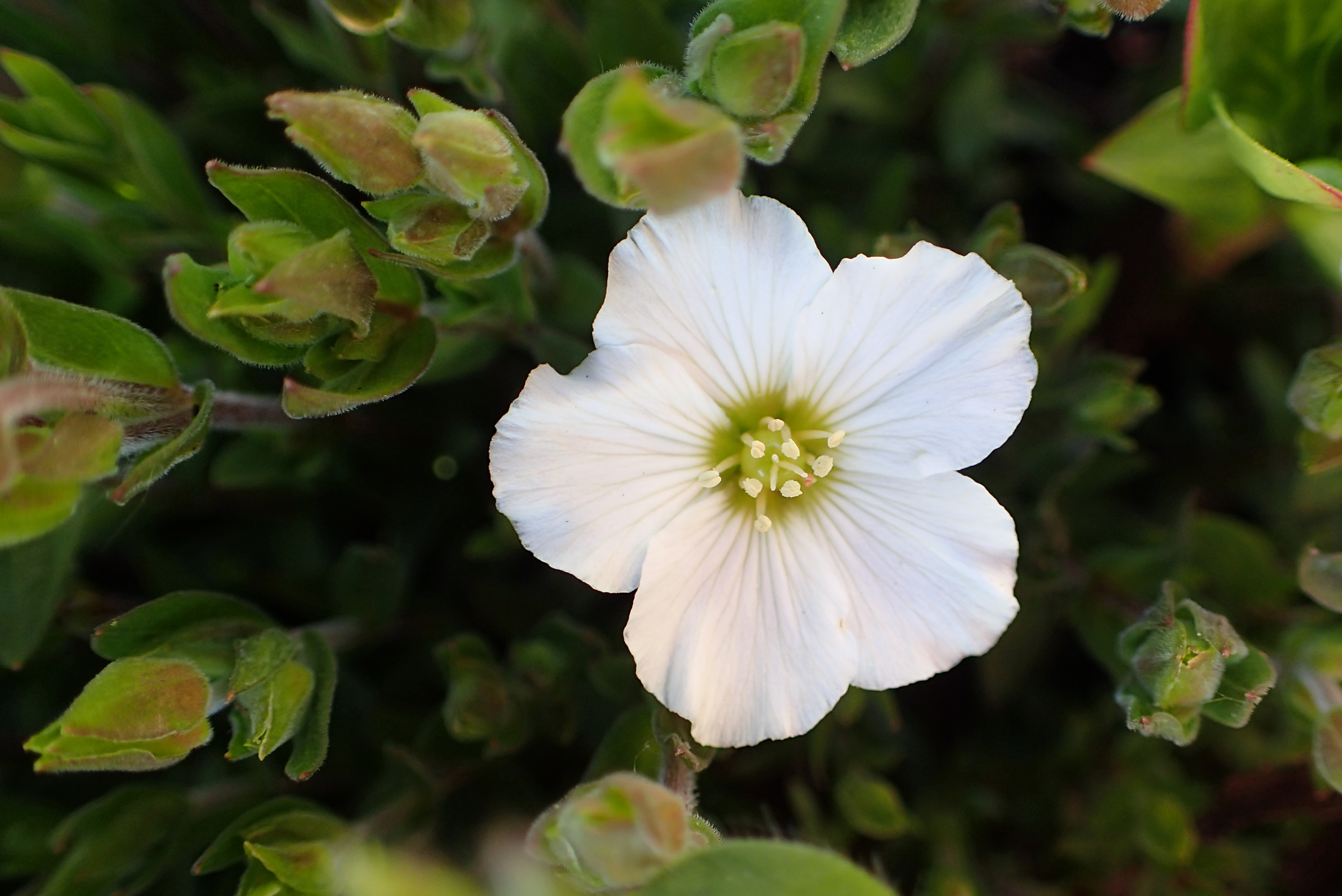 Arenaria montana in arboretum in Wojsławice